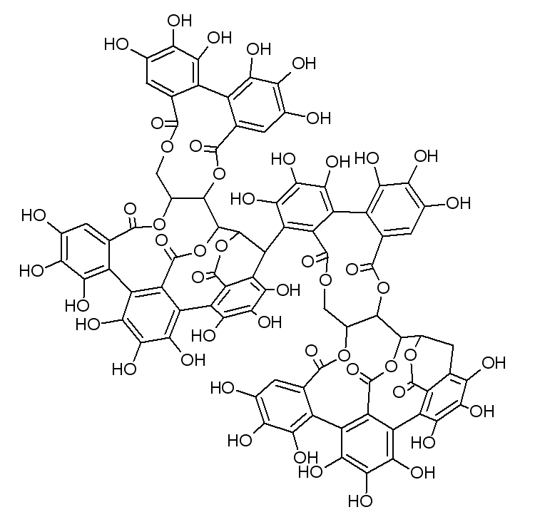 Chemical structure of roburin A